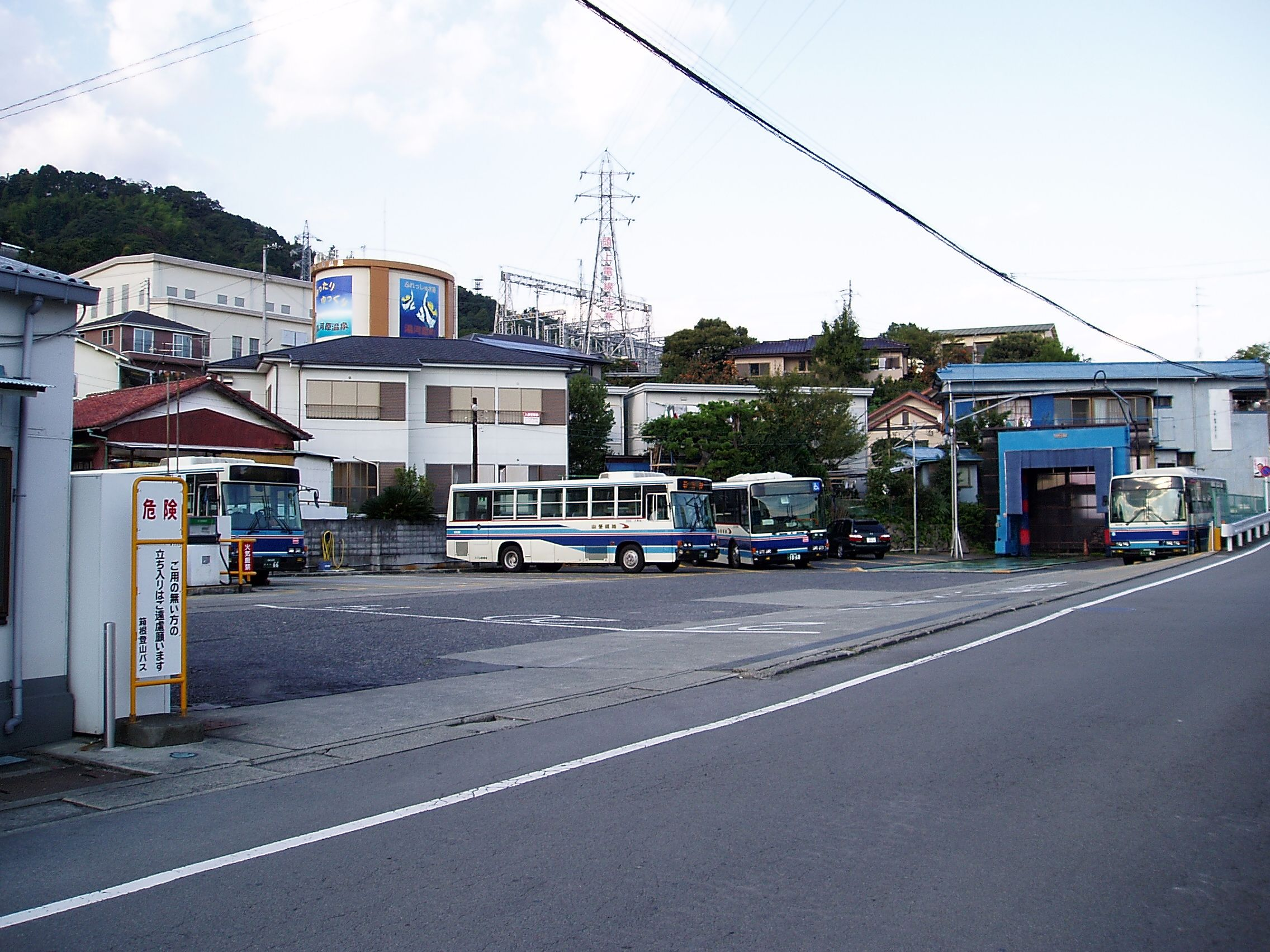 Hakone Tozan Bus Yugawara Dept.